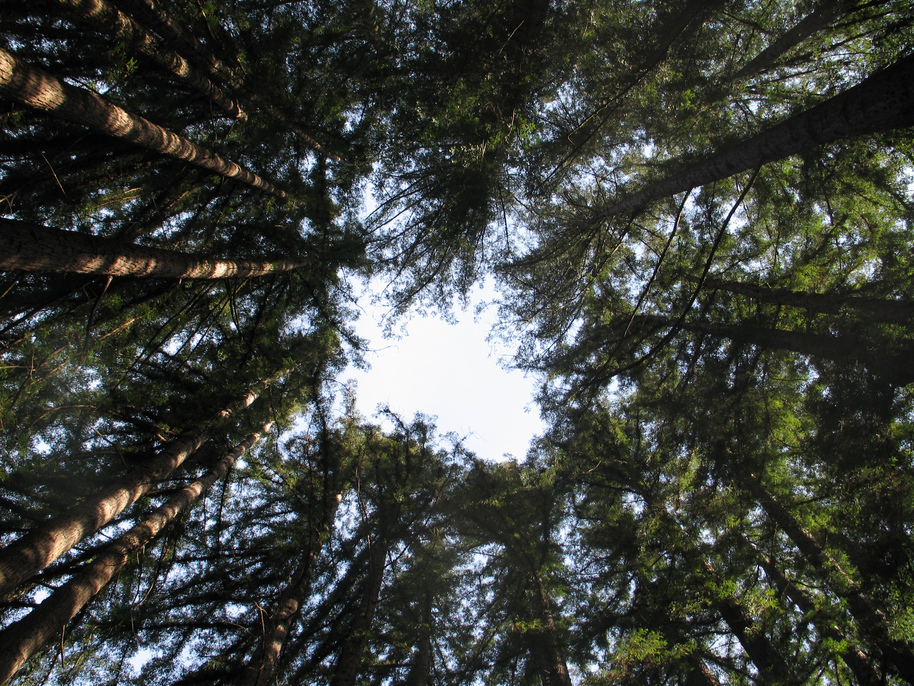 A sequoia sempervirens (California redwood, coast redwood) fairy ring in California.